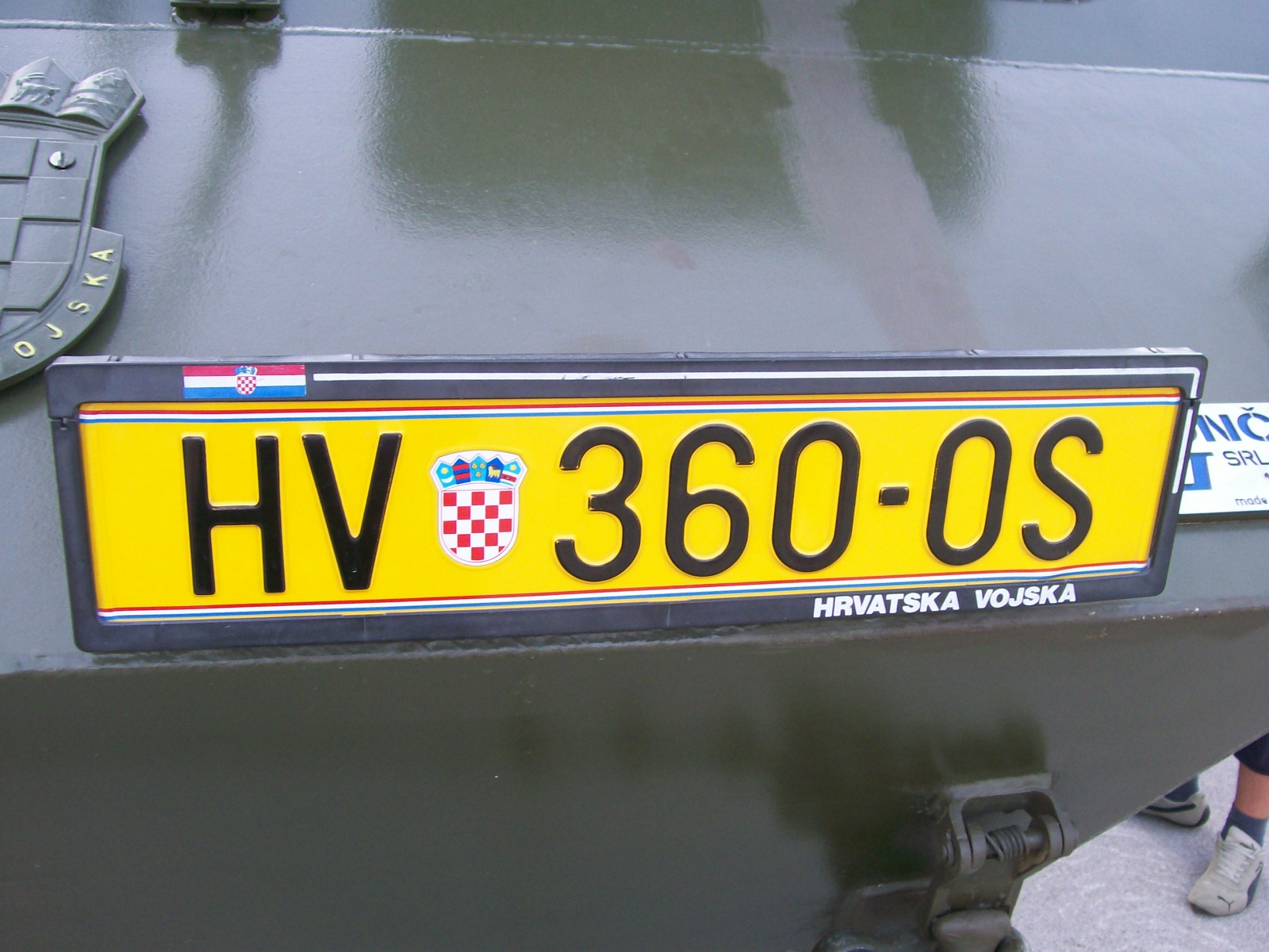 Licence plate on the croatian military vehicles